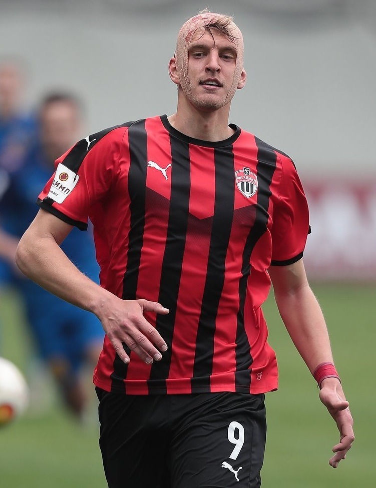 Vadim Manzon with FC Khimki in a game against FC Luch Vladivostok. His head is bandaged after he suffered a cut in an earlier collision.